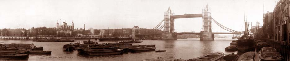 The Tower of London and Tower Bridge